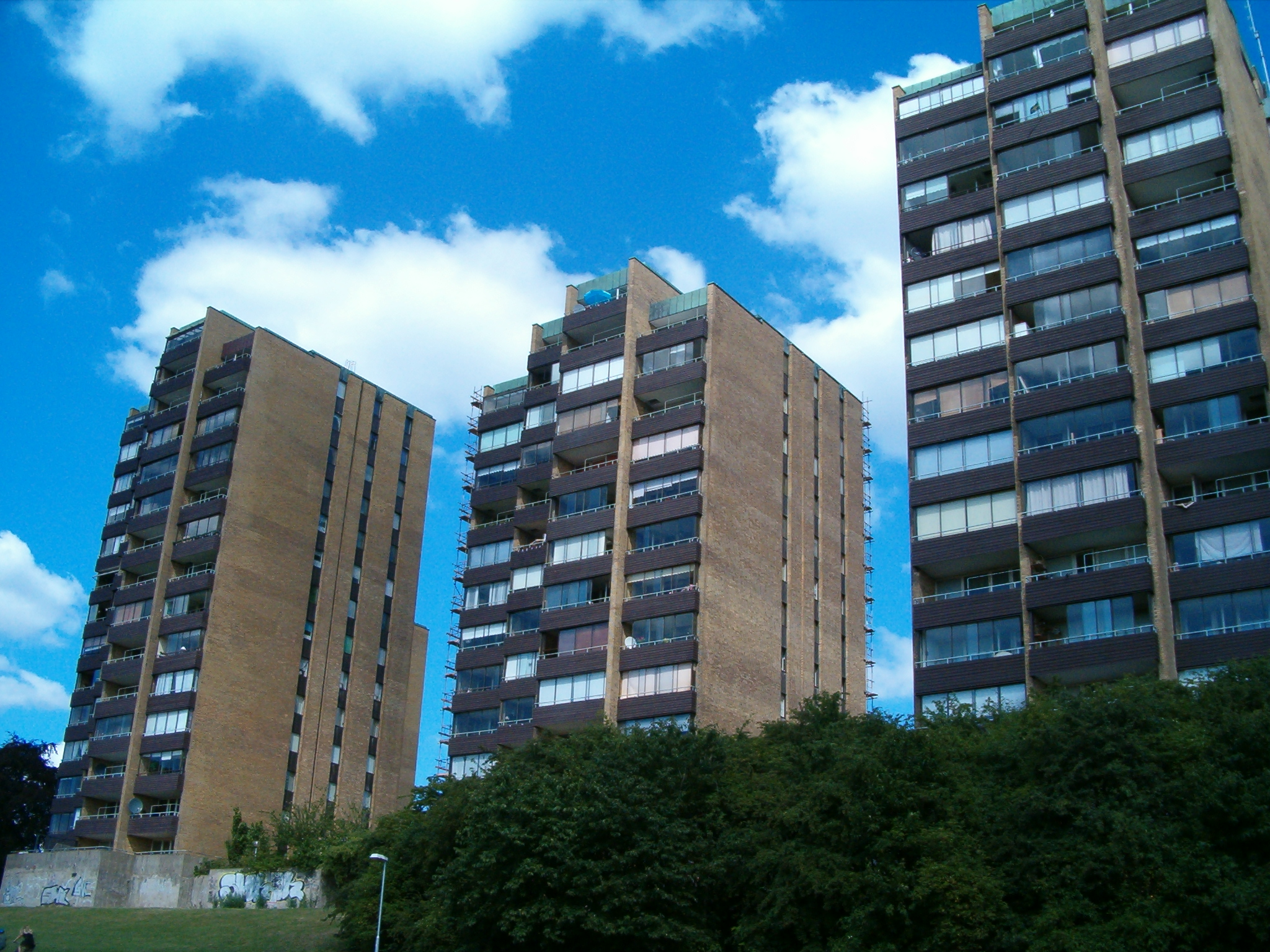 The Elineberg Towers in Helsingborg, Sweden, designed by the Danish architect Jørn Utzon.